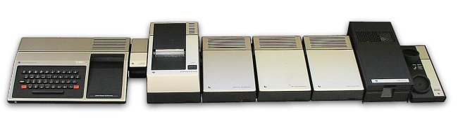 Author Ron Reuter (aka MainByte) I created the photo/file and it is released to the public domain.